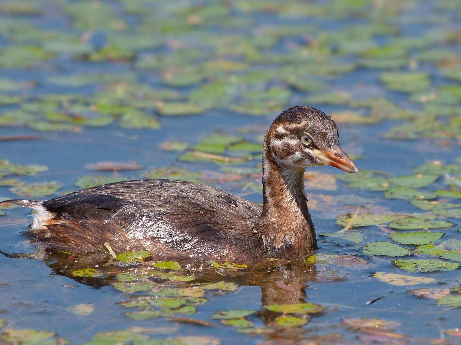 Tachybaptus ruficollis poggei, juvenile, Takikawa, Hokkaido, Japan.